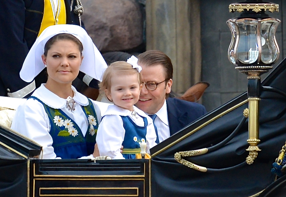 Victoria, Crown Princess of Sweden, Princess Estelle and Prince Danie at National Day 2014.